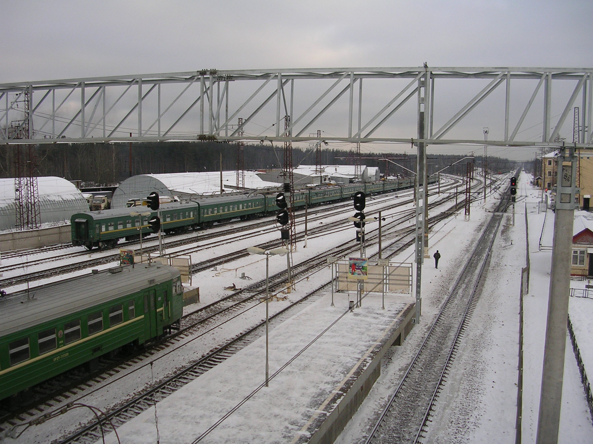 Fryazevo railway station, Moscow Oblast, Russia, from bridge to rhe east